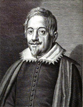 Portrait of Antonio Tempesta